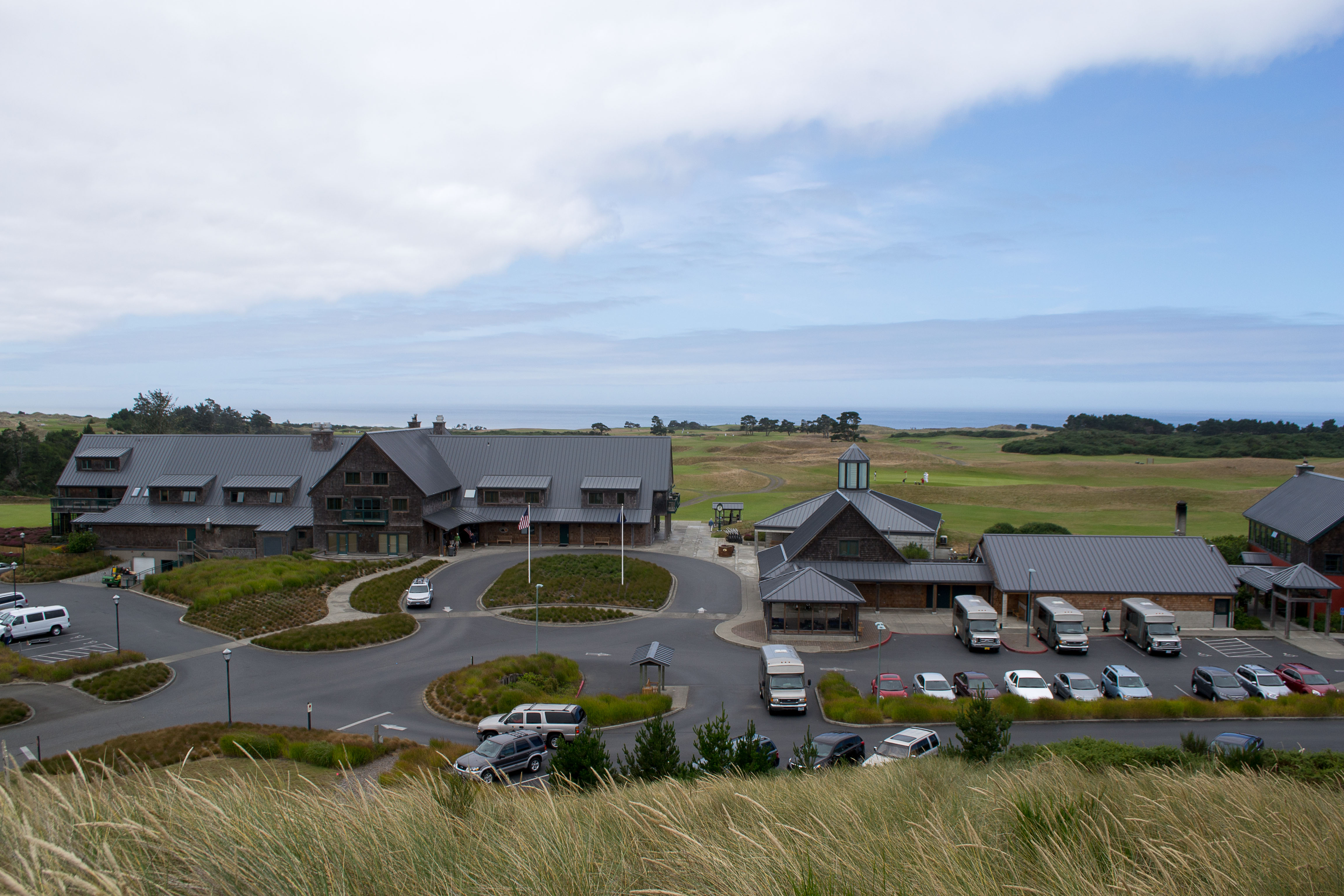 Bandon Dunes Golf Resort in Bandon, Oregon